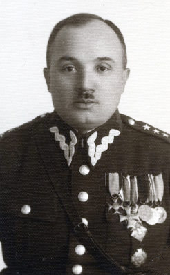 Stanisław Dąbek (1892-1939) – Colonel of the Polish Army, commander of Land Coastal Defence during Invasion of Poland 1939